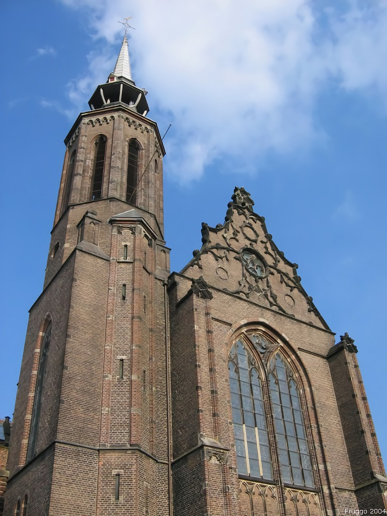 St. Catharine's Church in Utrecht (the Netherlands).